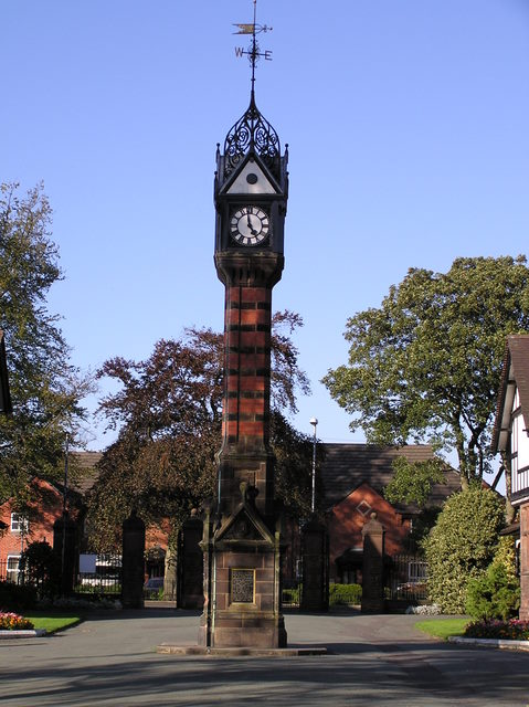 Clock Tower, Queen's Park, Crewe. Clock Tower at the main entrance to Queen's Park, Crewe.